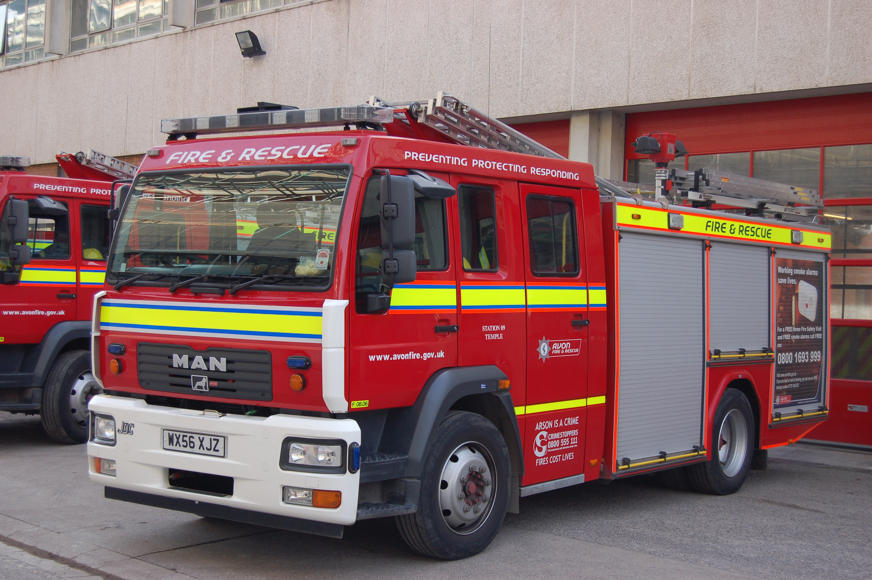 Photograph of a pump parked outside Temple fire station in Bristol